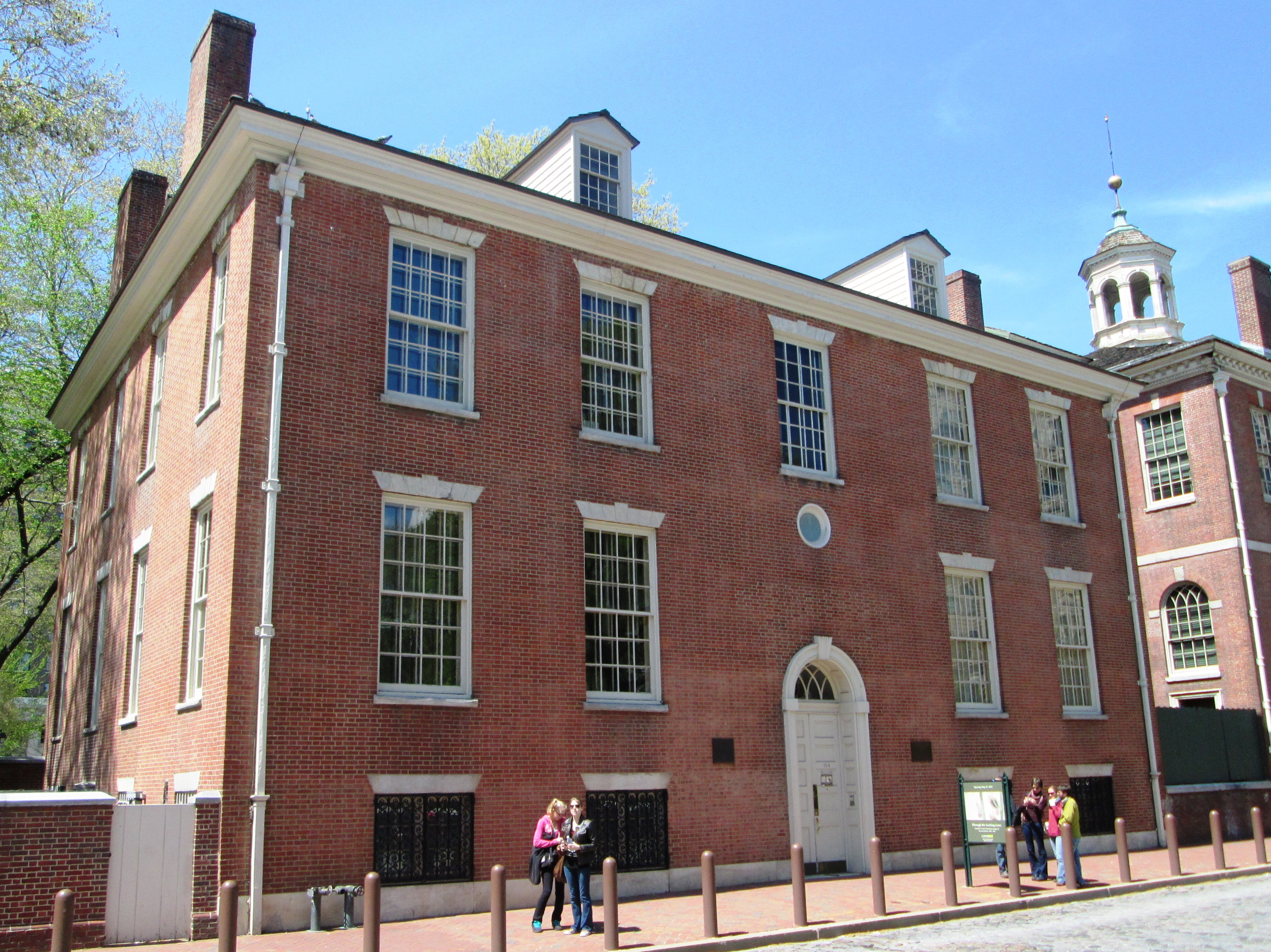 The headquarters of the American Philosophical Society, known as Philosophical Hall, at 104 S. 5th Street between Chestnut and Walnut Streets in the Independence National Historical Park in Philadelphia, was built in 1785-1789 and was designed by Samuel Vaughan in the Federal style. A third floor was added in 1890, but was subsequently removed in 1948. In 2001, it became the Museum of the Society. (Sources: Philadelphia Architecture: A Guide to the City (2nd ed.) and Architecture in Philadelphia: A Guide)